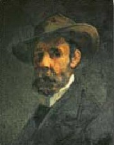 Yannoulis Chalepas, Portrait